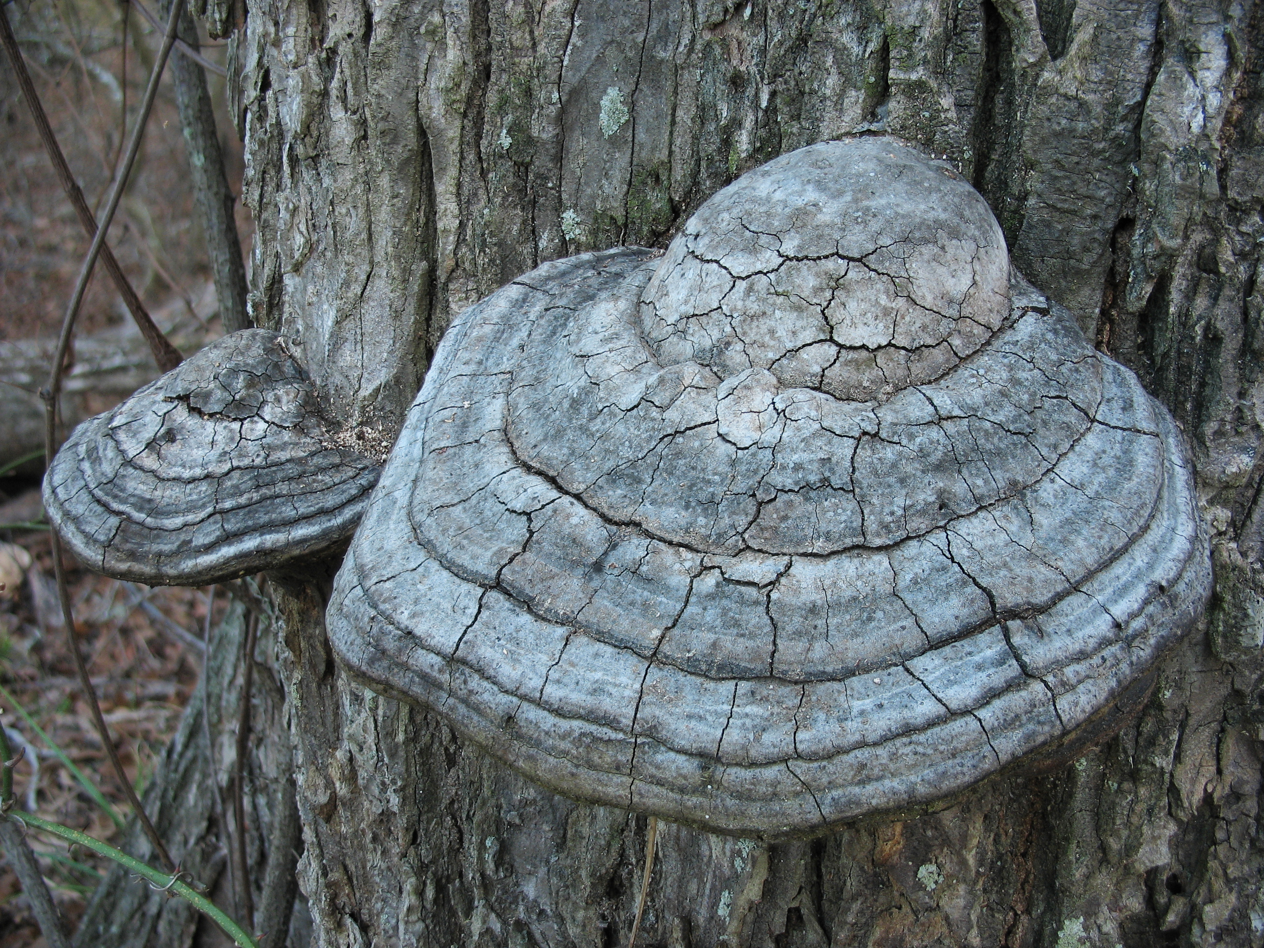 The pictures used to create this image were taken in Grimes County, Texas. The heavily-cracked mushroom appears to be a polypore.